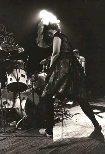 Pylon at the Agora Ballroom, Atlanta, GA